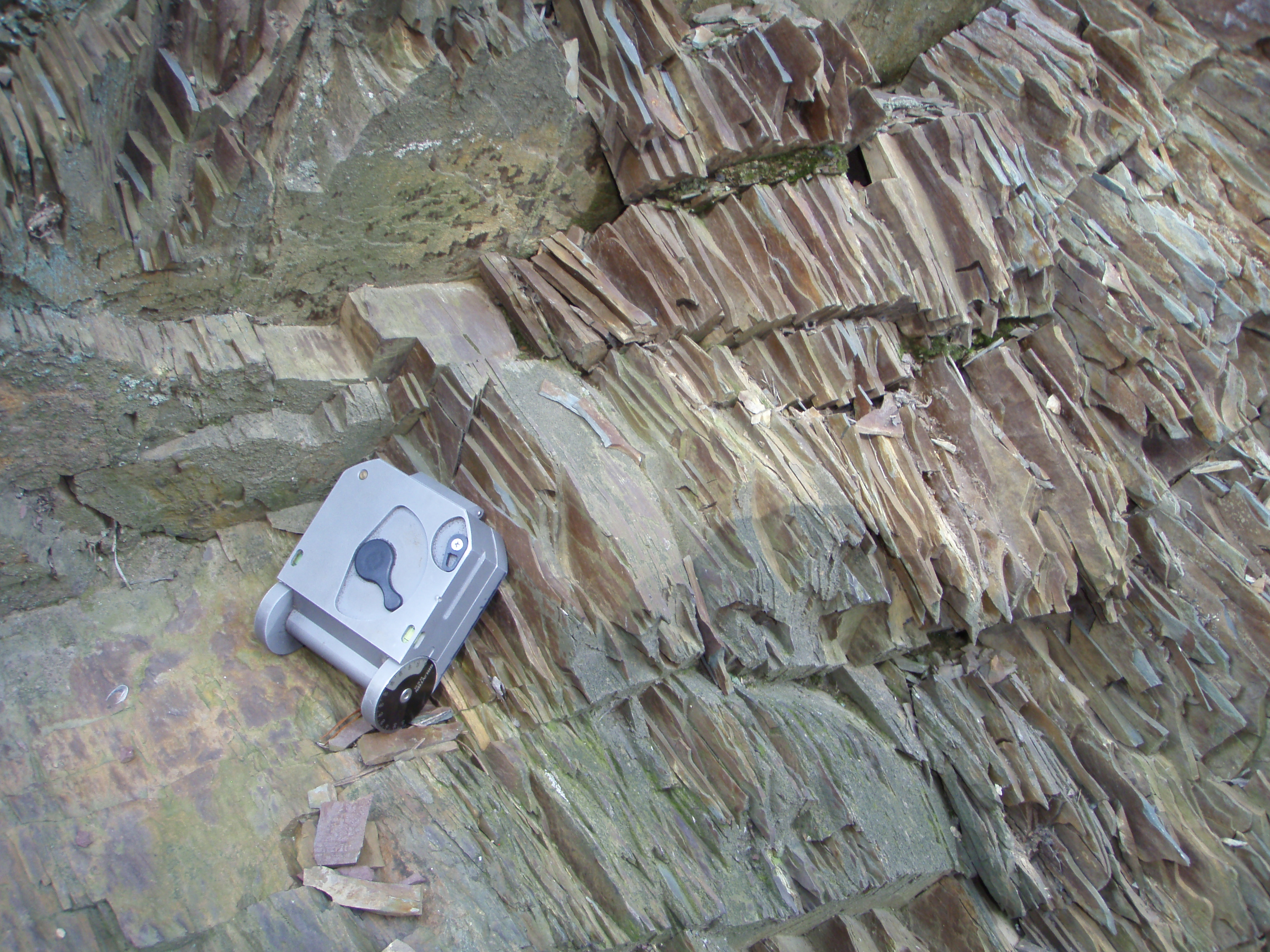 Pencil cleavage in limestone; Brunton Geo for scale.